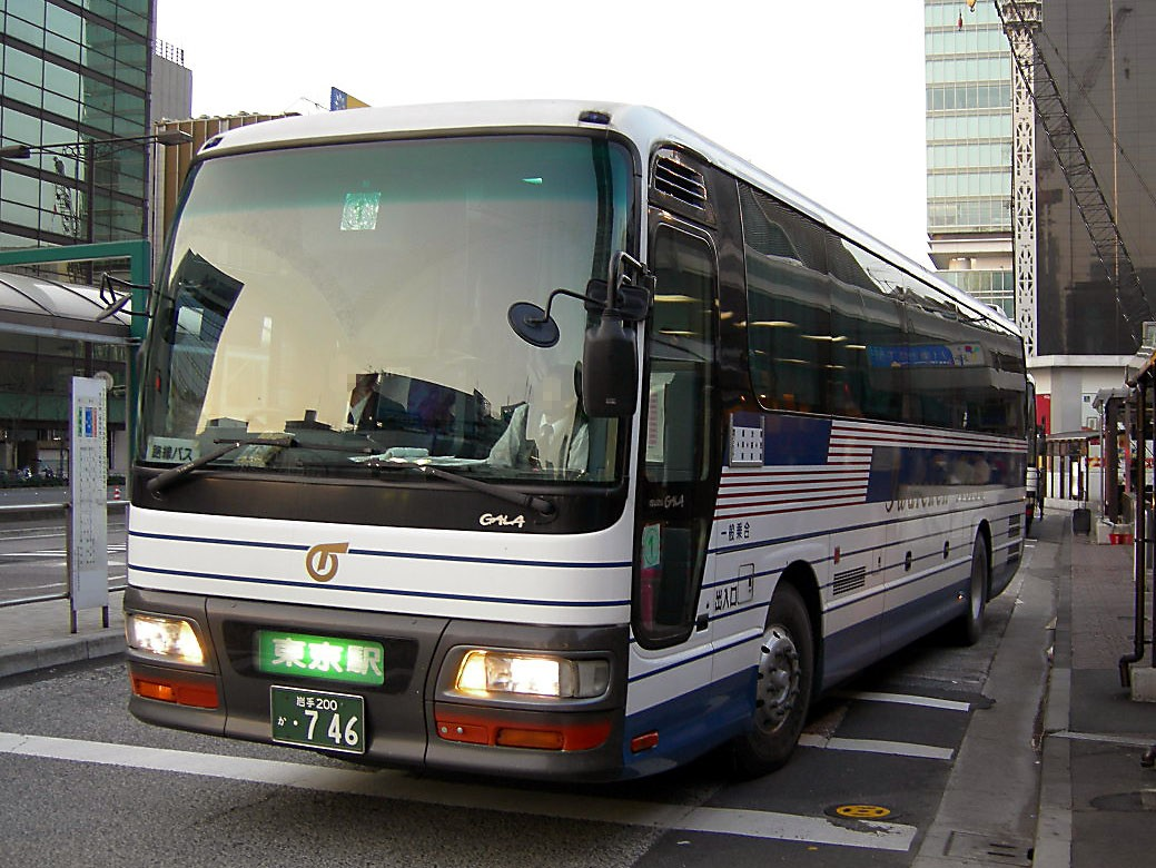 Iwateken Kotsu Highwaybus Morioka - Tokyo "Rakuchin"Isuzu GALA(KL-LV774R2)